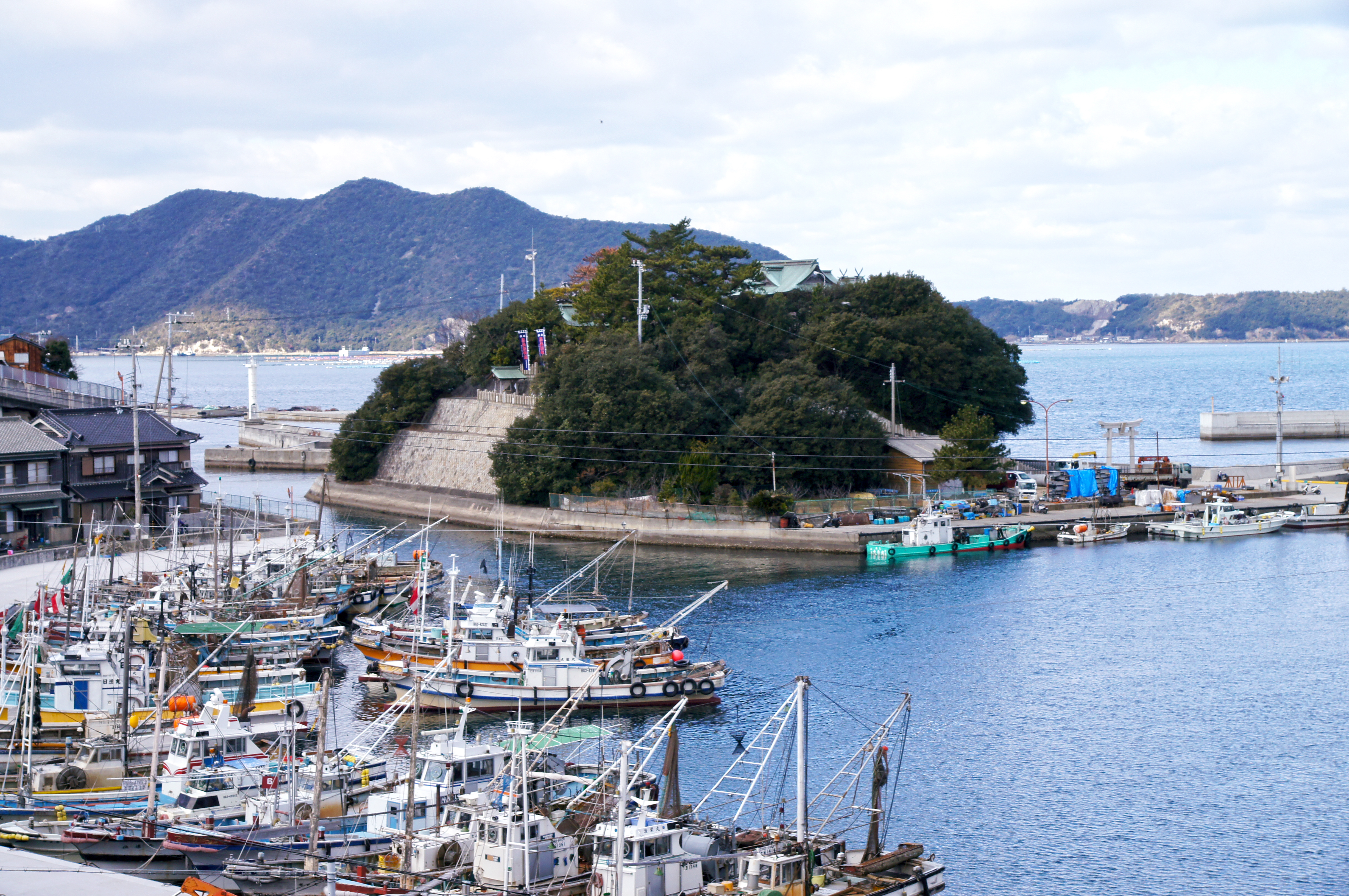 Bozeji-ato is one of the Ten Views of Ieshima Islands in Bozejima Island, Himeji, Hyogo prefecture, Japan.